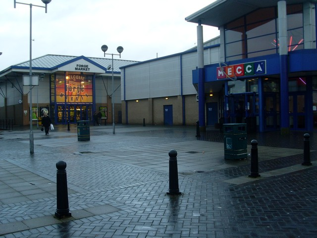 Forge Market, Parkhead Scotland's largest indoor market.